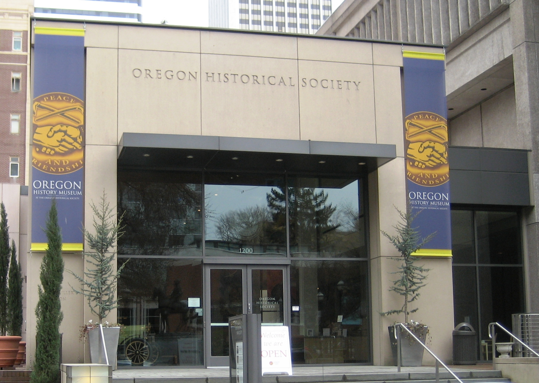 Entrance to the Oregon Historical Society Museum in Portland, Oregon, USA